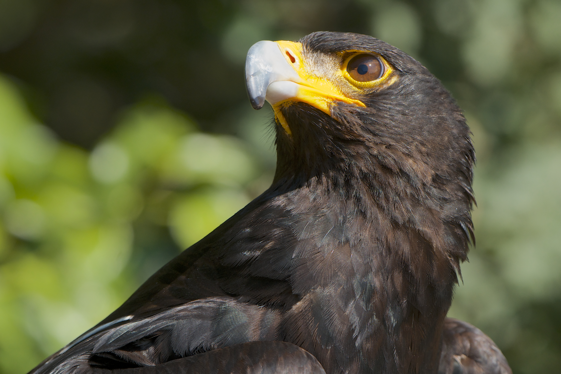 Closeup of Verreaux's Eagle Aquila verreauxii